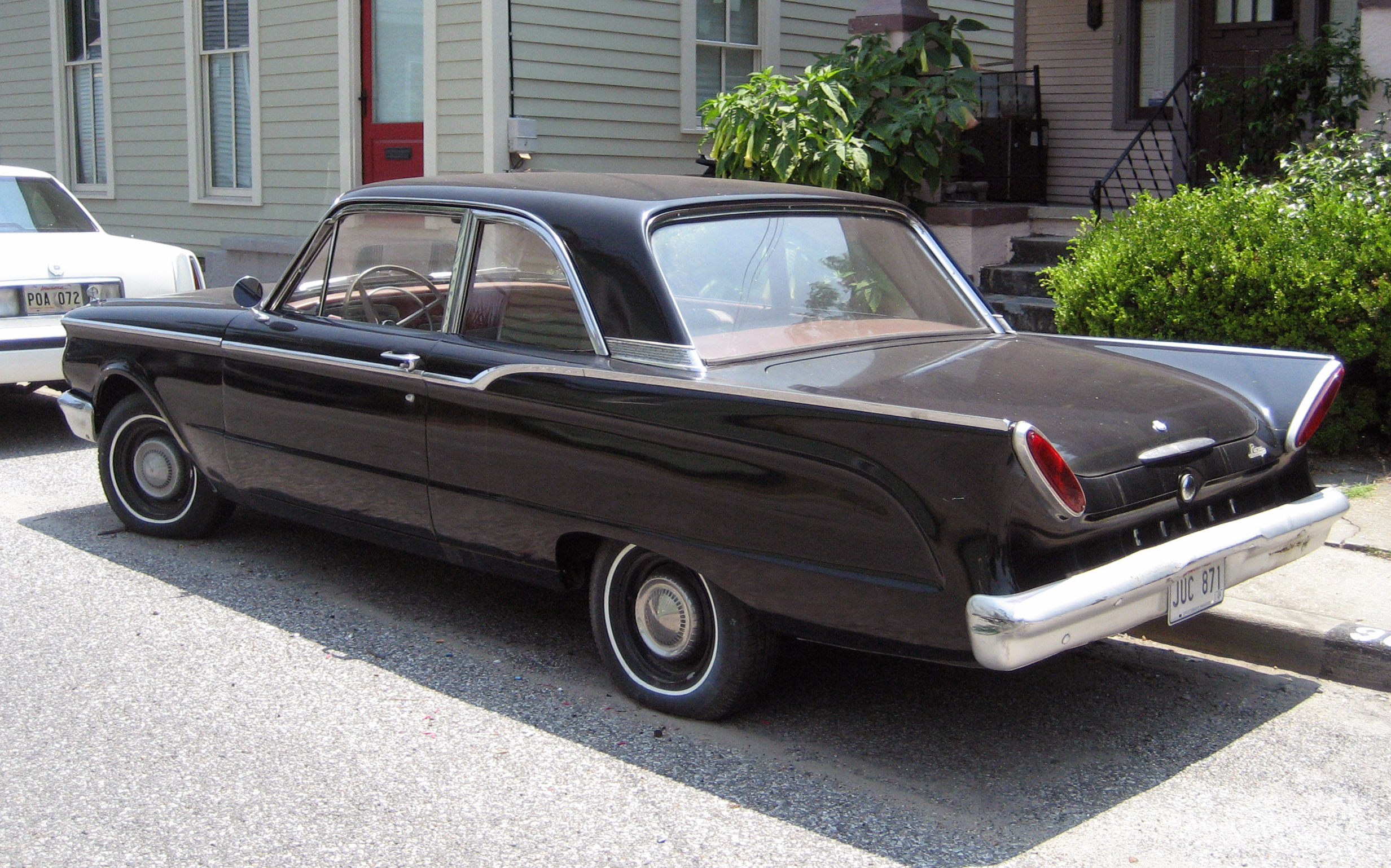 A Mercury Comet (1960, I think) seen parked on street in Uptown New Orleans.